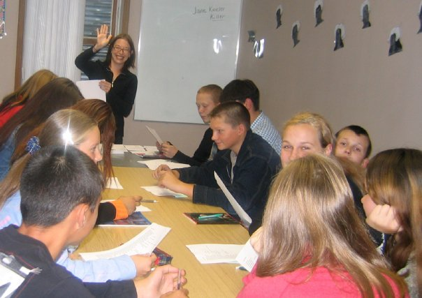 Teaching in the American Home